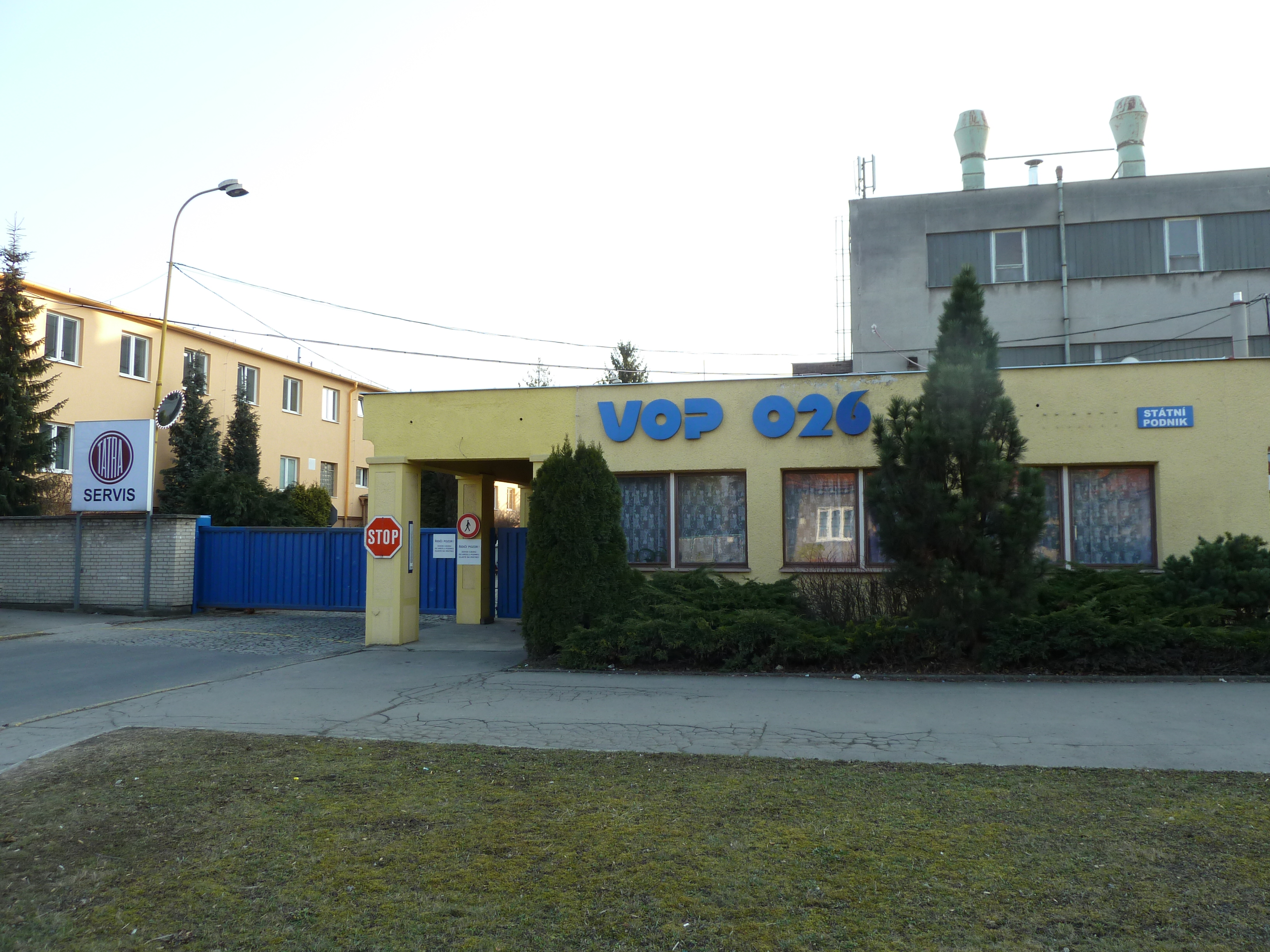 An entrance to the state enterprise "VOP 026" ("Military repairing enterprise 026") in village Šenov u Nového Jičína (Nový Jičín district, north-eastern Moravia, Czech Republic)